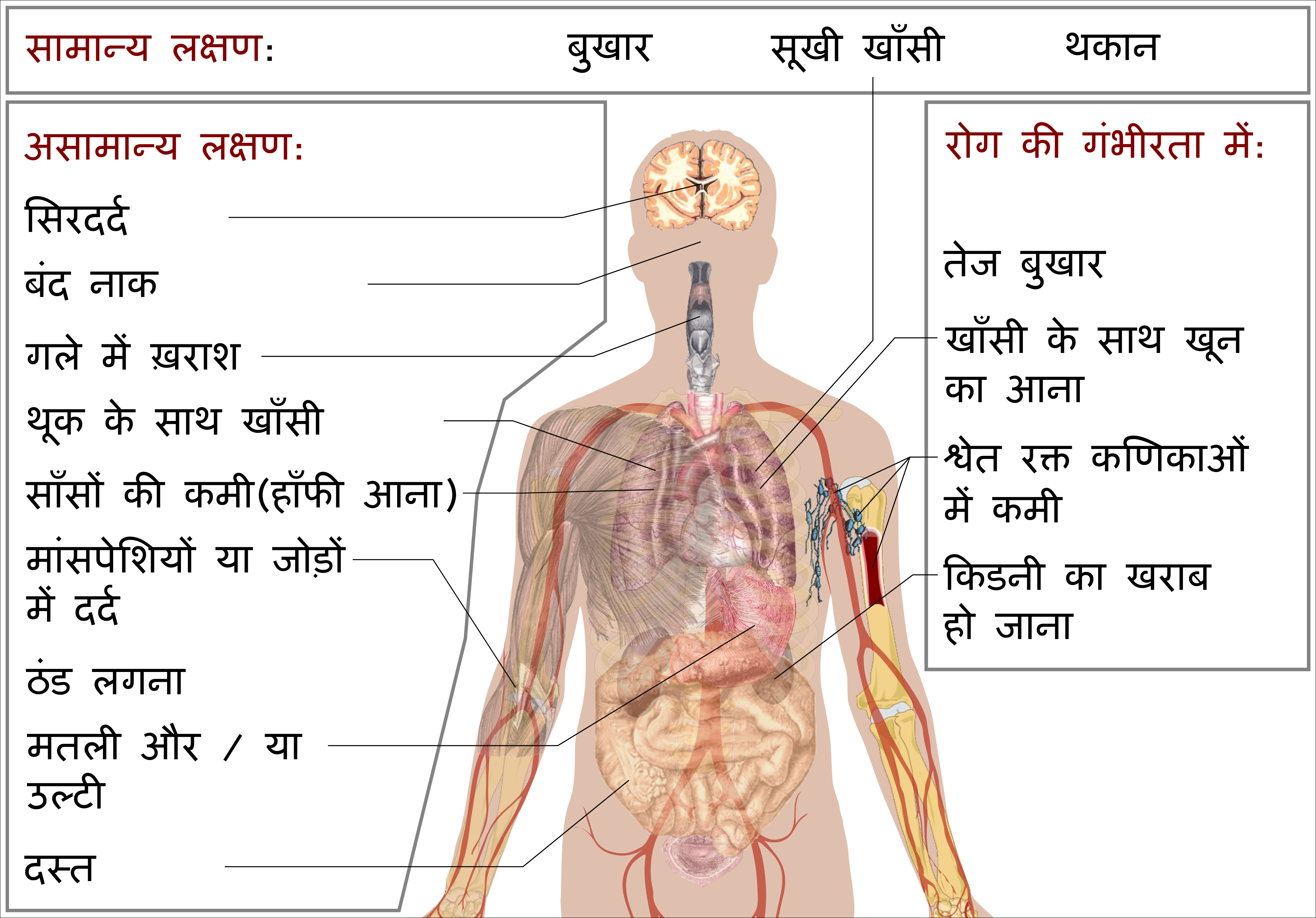 Symptoms of coronavirus disease 2019 (COVID-19), the disease seen in the 2019–20 coronavirus outbreak, and is caused by the Severe acute respiratory syndrome coronavirus 2 (SARS-CoV-2).